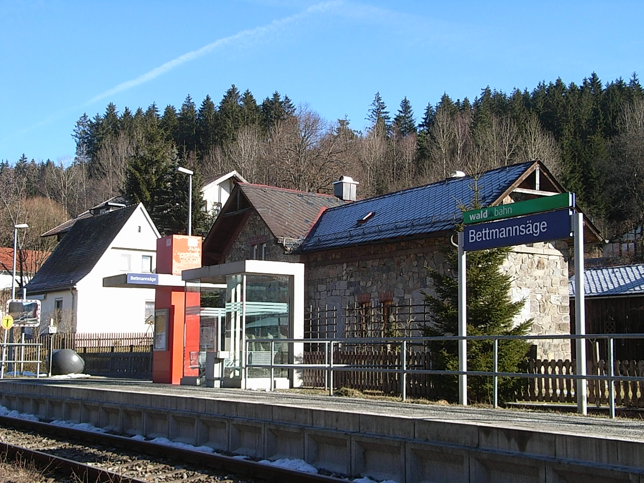 Bettmannsäge train station.